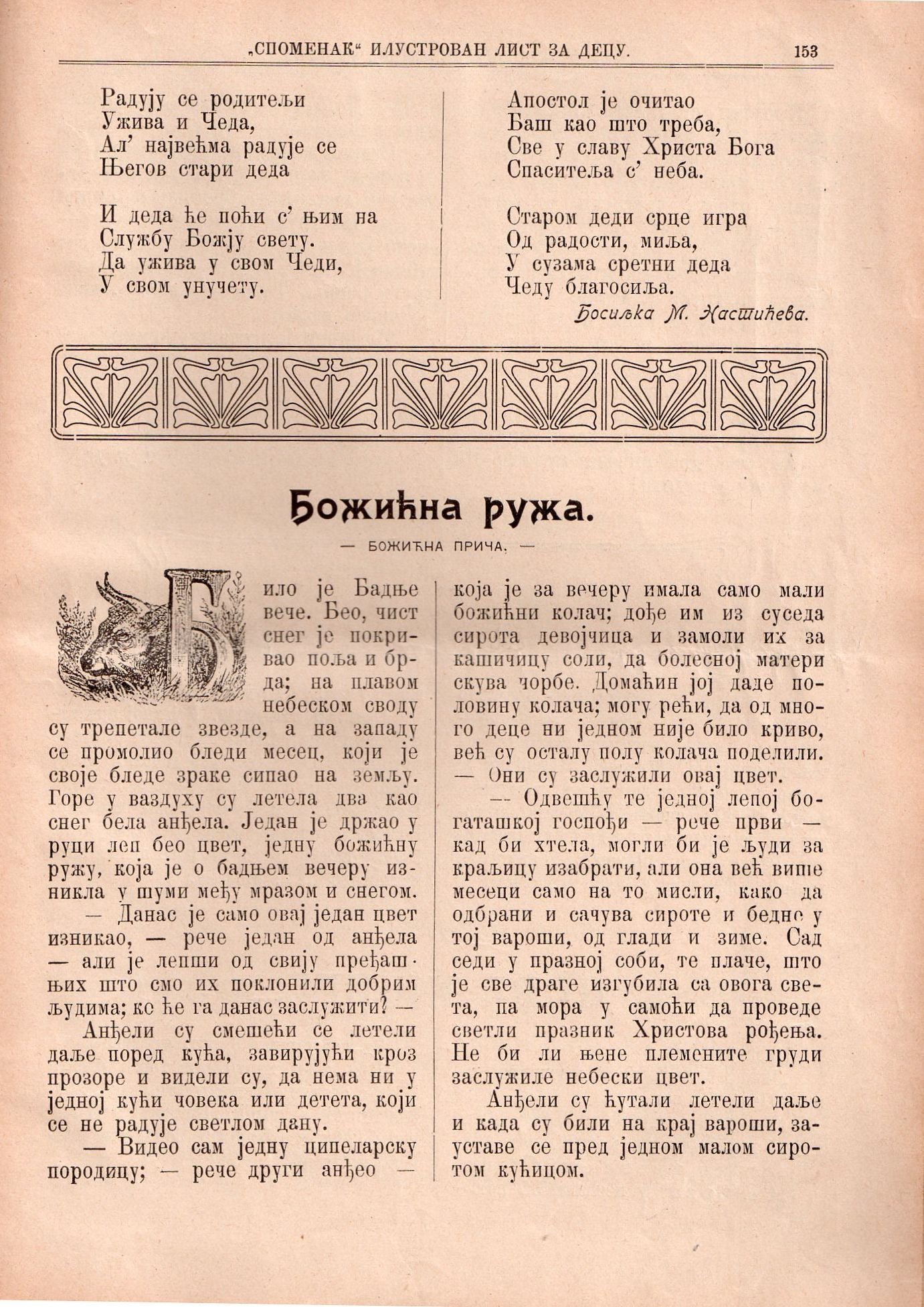 Spomenak, children magazine, number 12, pp 153-154, 1909.